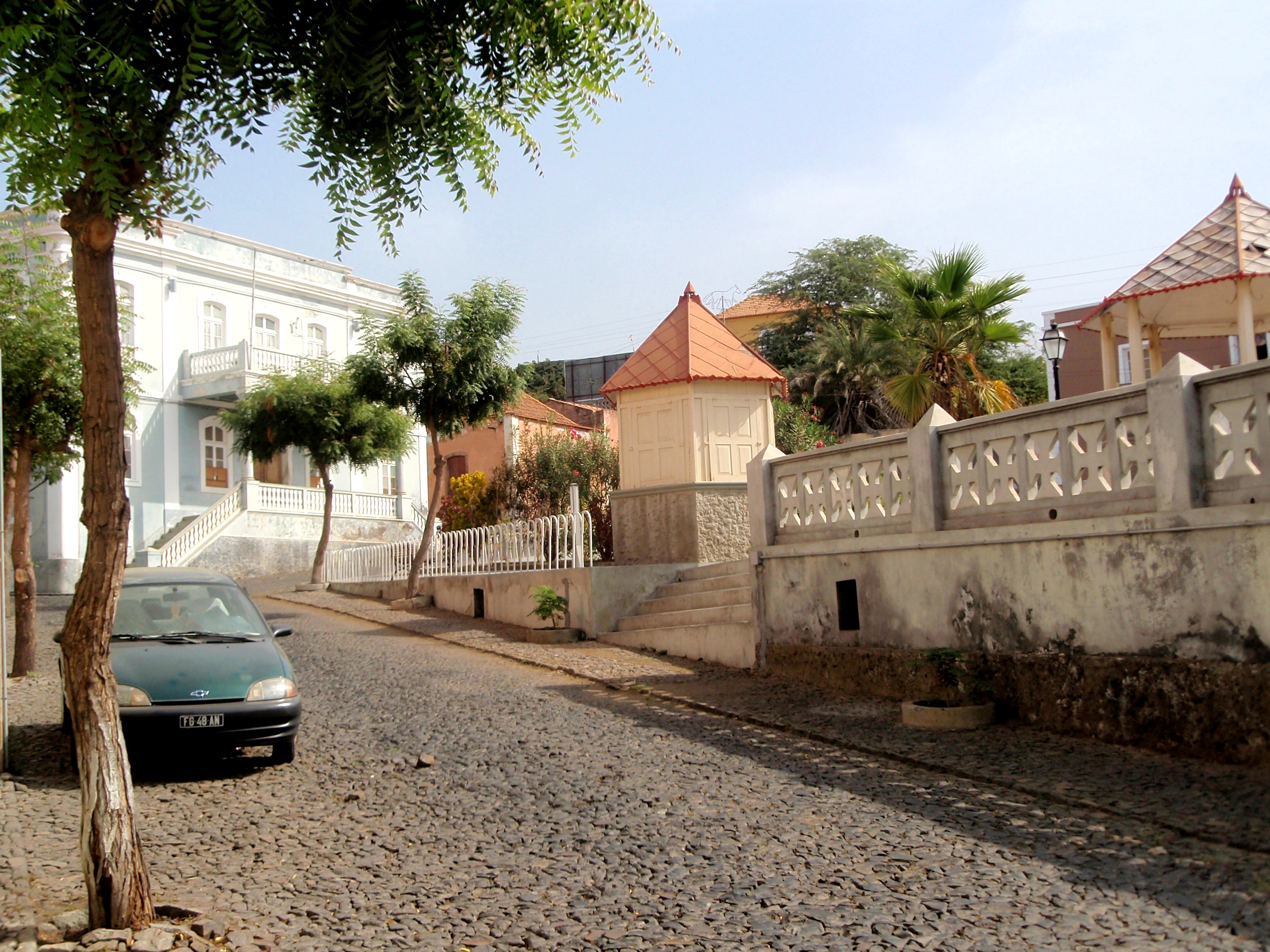 Sao Filipe, Fogo, Cape Verde